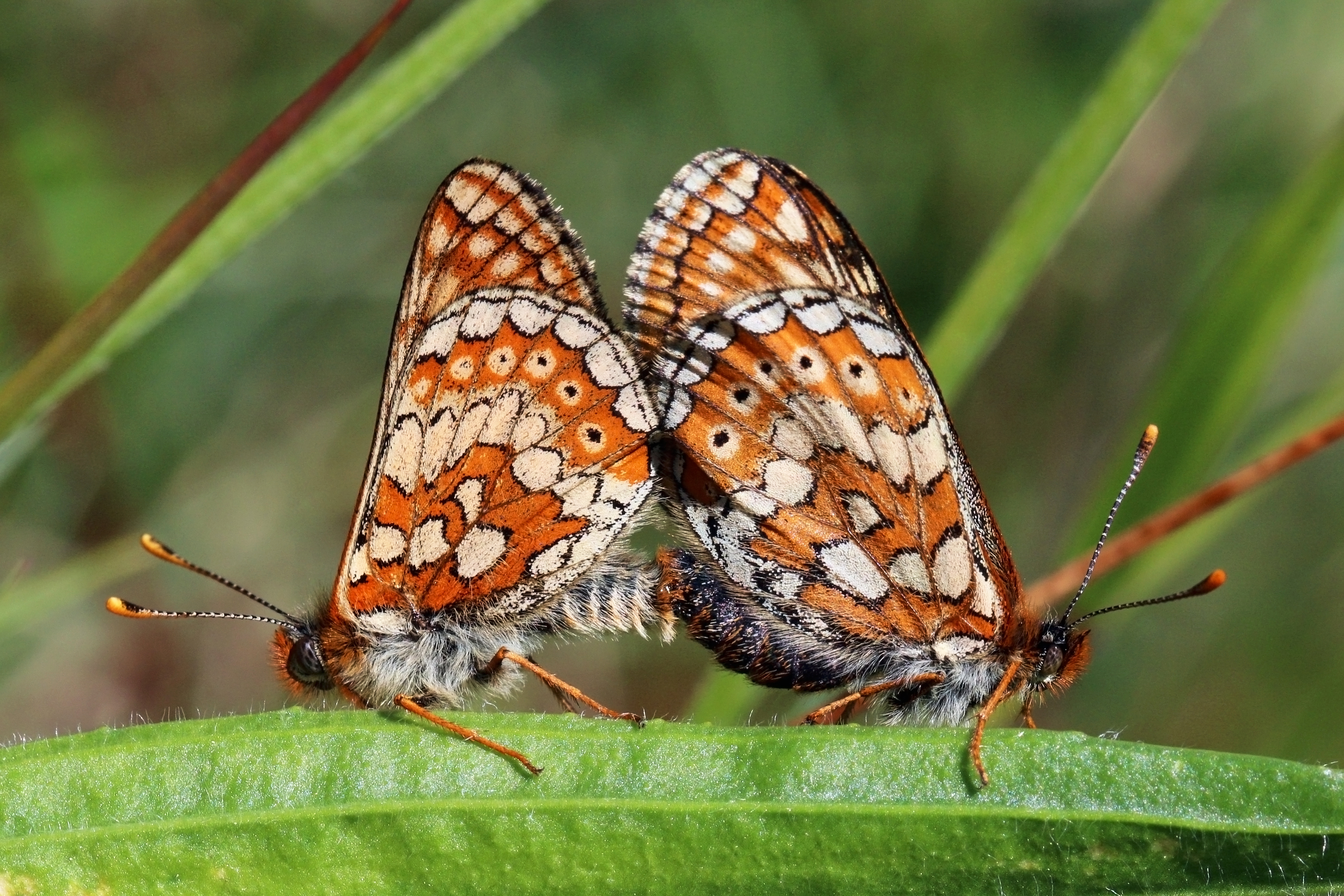 Marsh fritillaries (Euphydryas aurinia) mating, male left and female right, Brickes Wood, Lydlinch, Dorset